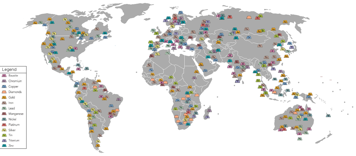 A schematic showing the locations of certain ores deposits in the world. A specific focus has been put on metals, and construction materials. Natural resources that are used for energy (fossil oil, gas ...) can be found on another map. Although metals can still be won from regular mining, most metals, ... can now be much more economically won from landfills. This, as landfills require much less labour (less soil needs to be dug off and sieved). In addition, the use of a cradle-to-cradle material recovery can also save a lot of labour and is therefore also more economically attractive. For some materials however, regular mining will still need to continue. In this case, it is best to choose ore sites that are located in biodiversity-poor regions (e.g. mountainous regions, regions outside of the tropical-subtropical zone). As the map is simplified, we can herefore study the maps from the USGS at ; the database is also usable with Google Earth, The map was made using data from Howstuffworks